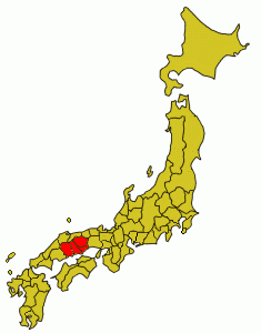 Map of Provinces of Japan with Kibi Province highlighted